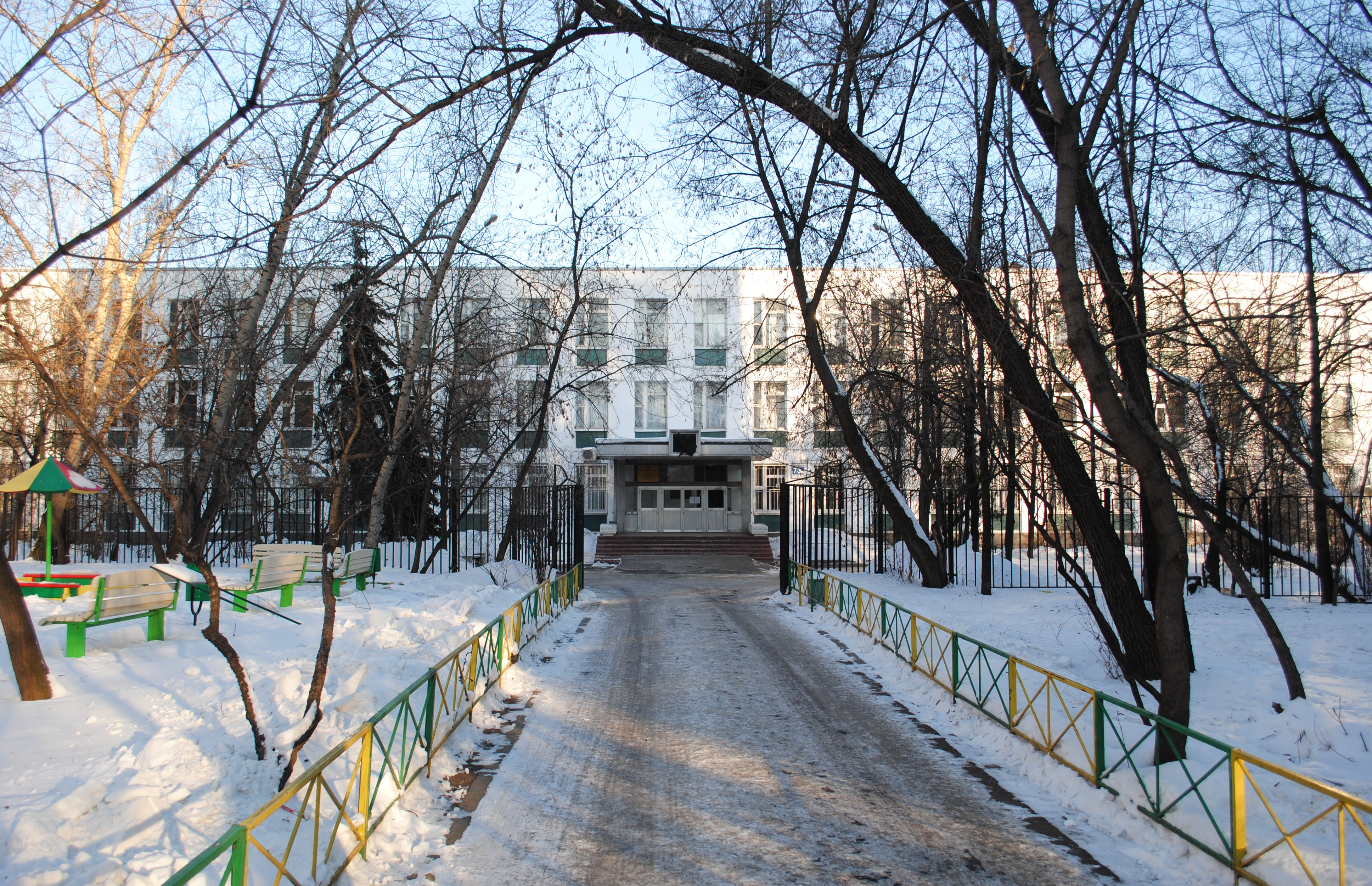 Moscow art college by 1905 year